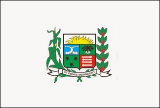 Flags of the city of Araxá, Minas Gerais , Brazil.